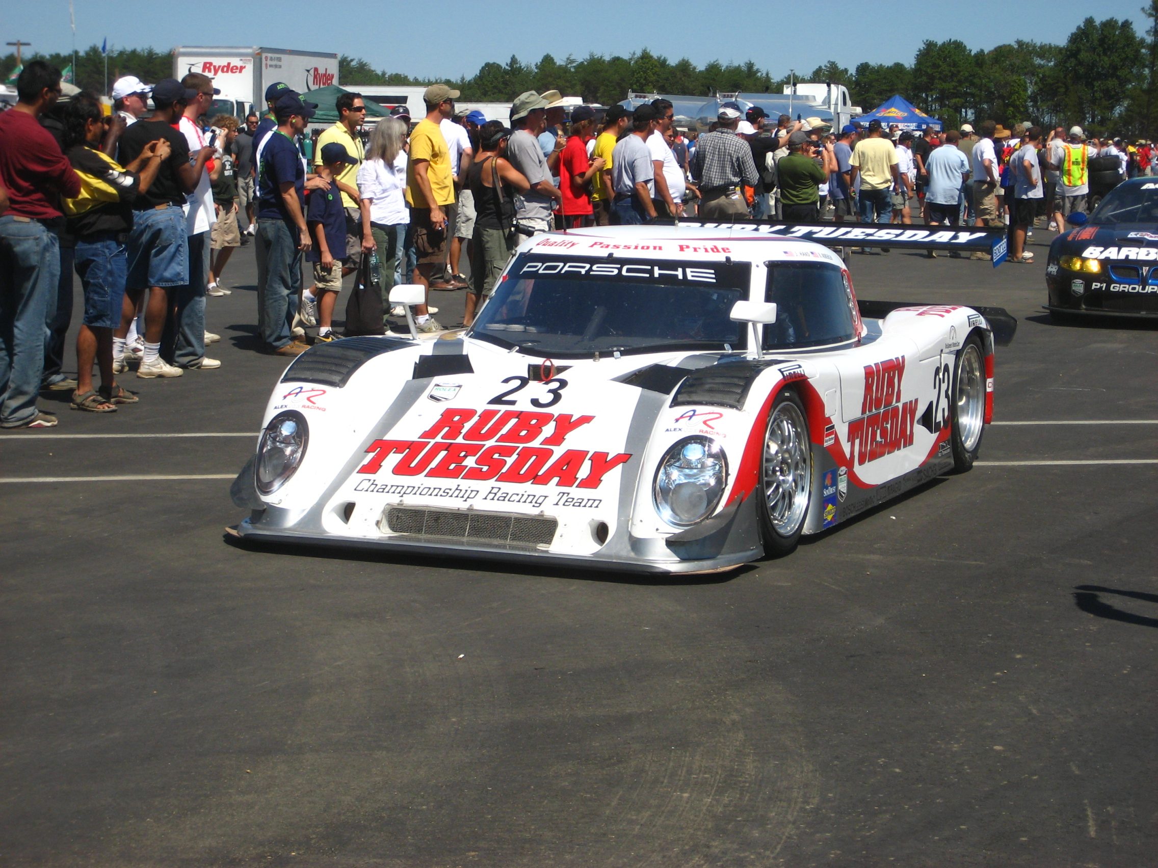 Alex Job Racing's Riley-Porsche at the 2008 Supercar Life 250 at the New Jersey Motorsports Park.